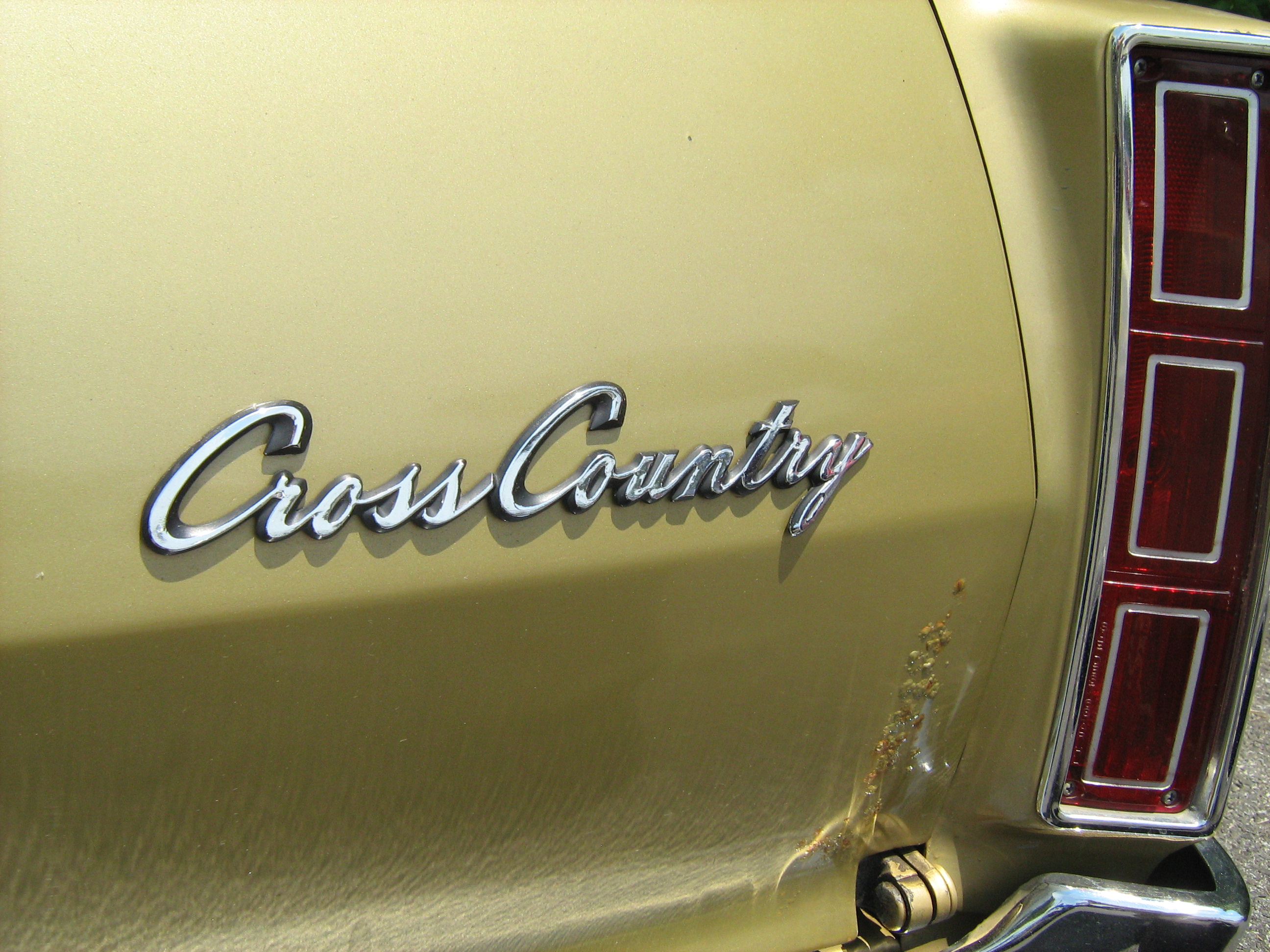 Detail of the "Cross Country" emblem on the tailgate of a 1968 Rambler Rebel 770, a mid-sized station wagon by American Motors Corporation (AMC). AMC used the "Cross Country" designation on its station wagon models. Picture taken at the Cecil County Dragstrip in Maryland.